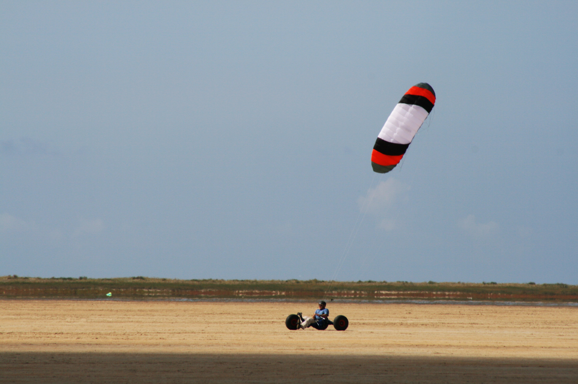 XRiders at Romo Island in Denmark